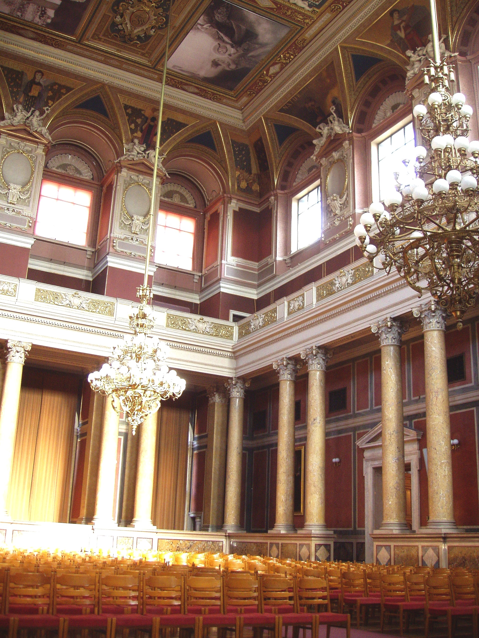 Festsaal (Ceremony Hall) in the main building of the University of Vienna, Austria. Photograph taken by me, May 2005.